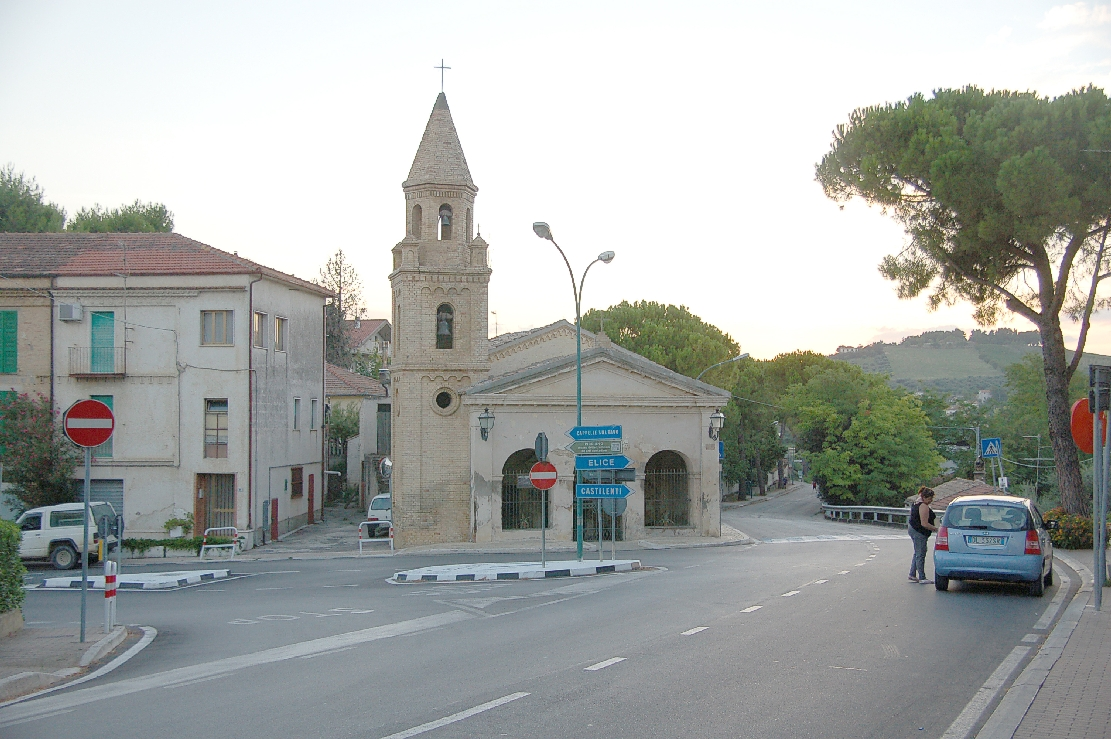 Sant Angelo